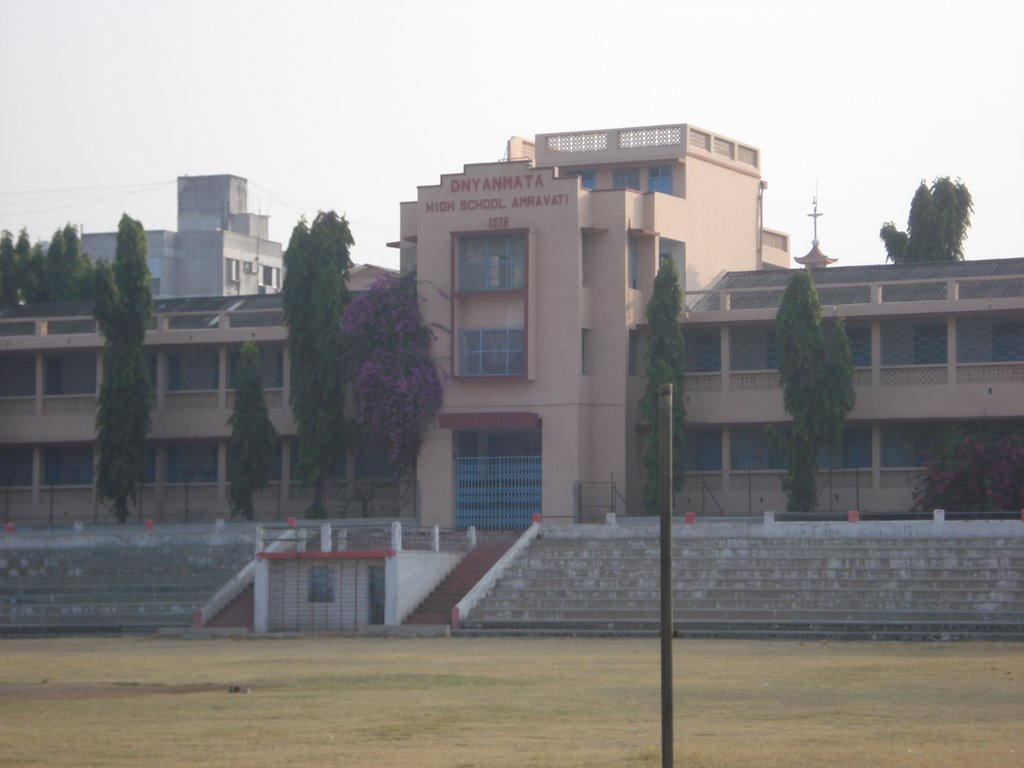 Front Facade of Dnyanmata High School, Amravati